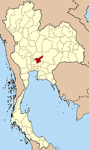 Map of Thailand highlighting Saraburi province